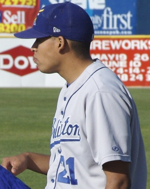 Burlington Bees players warm up before a 2006 game in Battle Creek, Michigan